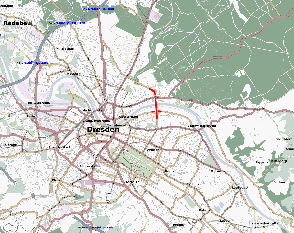 Location of the Waldschlösschenbrücke Elbe bridge and prolonging streets